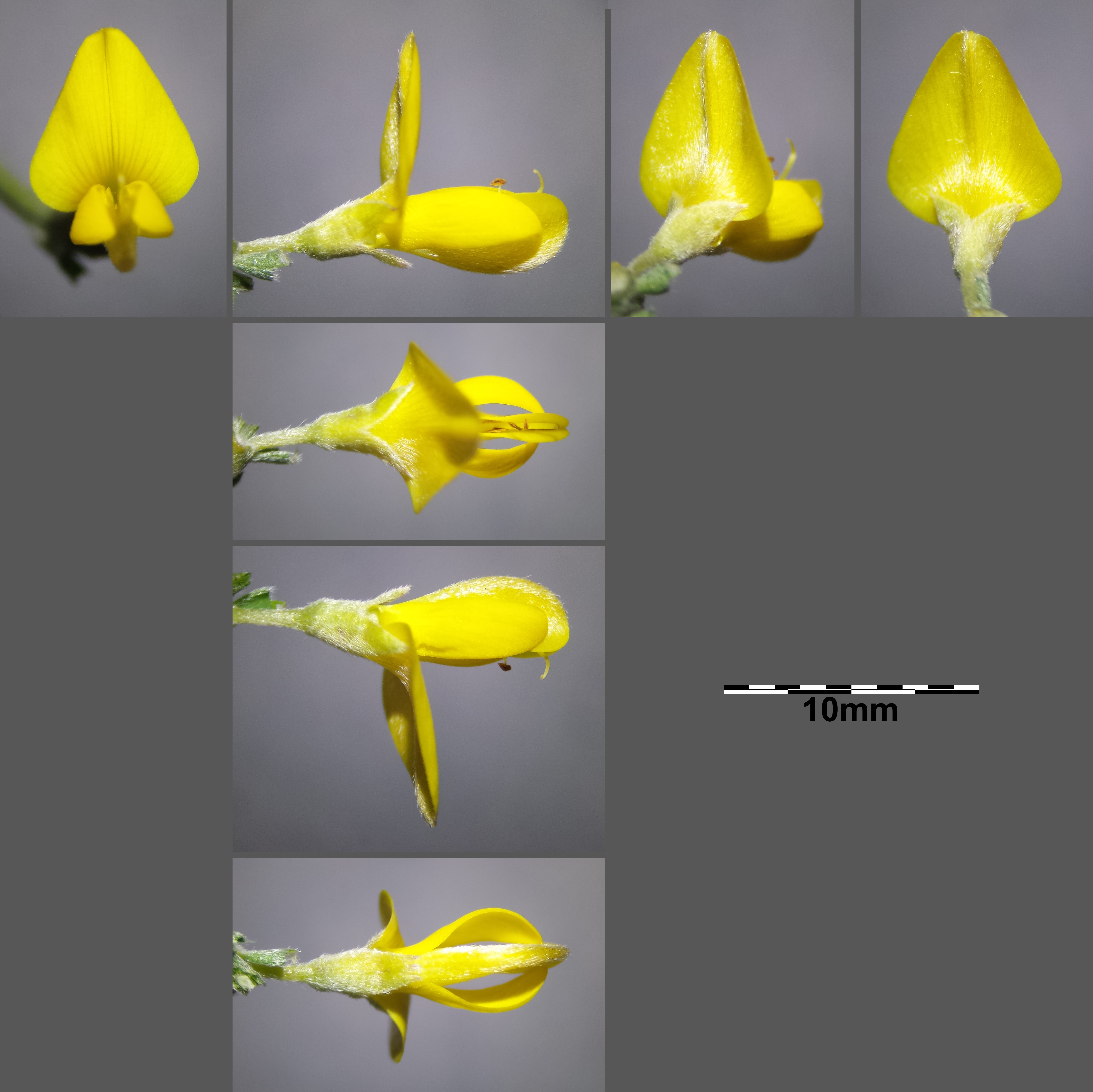 Flower Taxonym: Genista pilosa ss Fischer et al. EfÖLS 2008 ISBN 978-3-85474-187-9 Location: Gollitsch near Retz, district Hollabrunn, Lower Austria - ca. 325 m a.s.l. Habitat: dry grassland